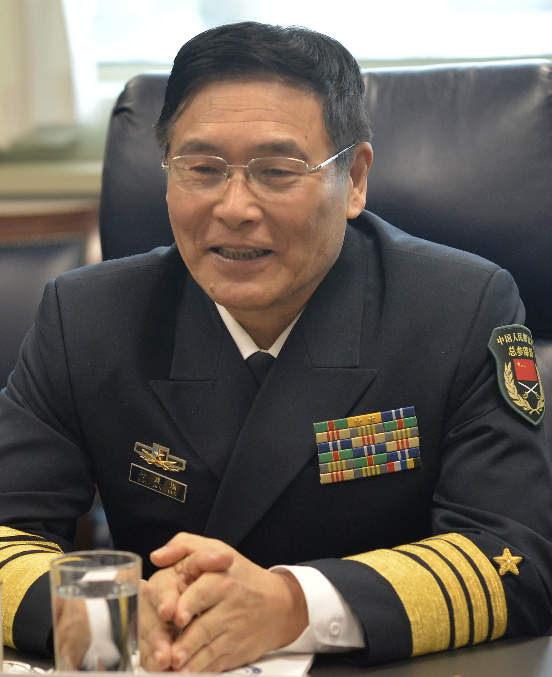 Deputy Secretary of Defense Bob Work mets with Admiral Sun Jianguo of the People's Republic of China at the Pentagon Nov. 7, 2014. DoD photo by Glenn Fawcett (Released)